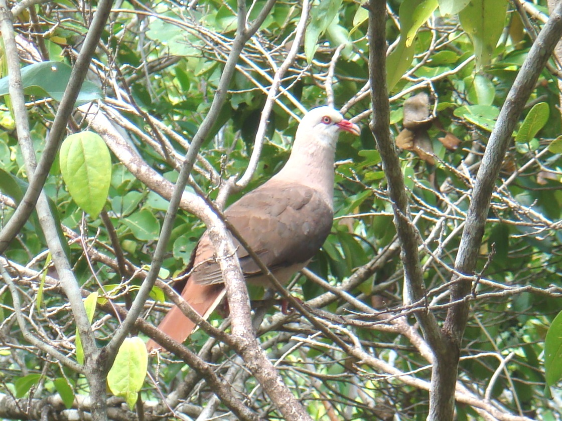 A Pink Pigeon at Ile aux Aigrettes Nature Reserve, Mauritius